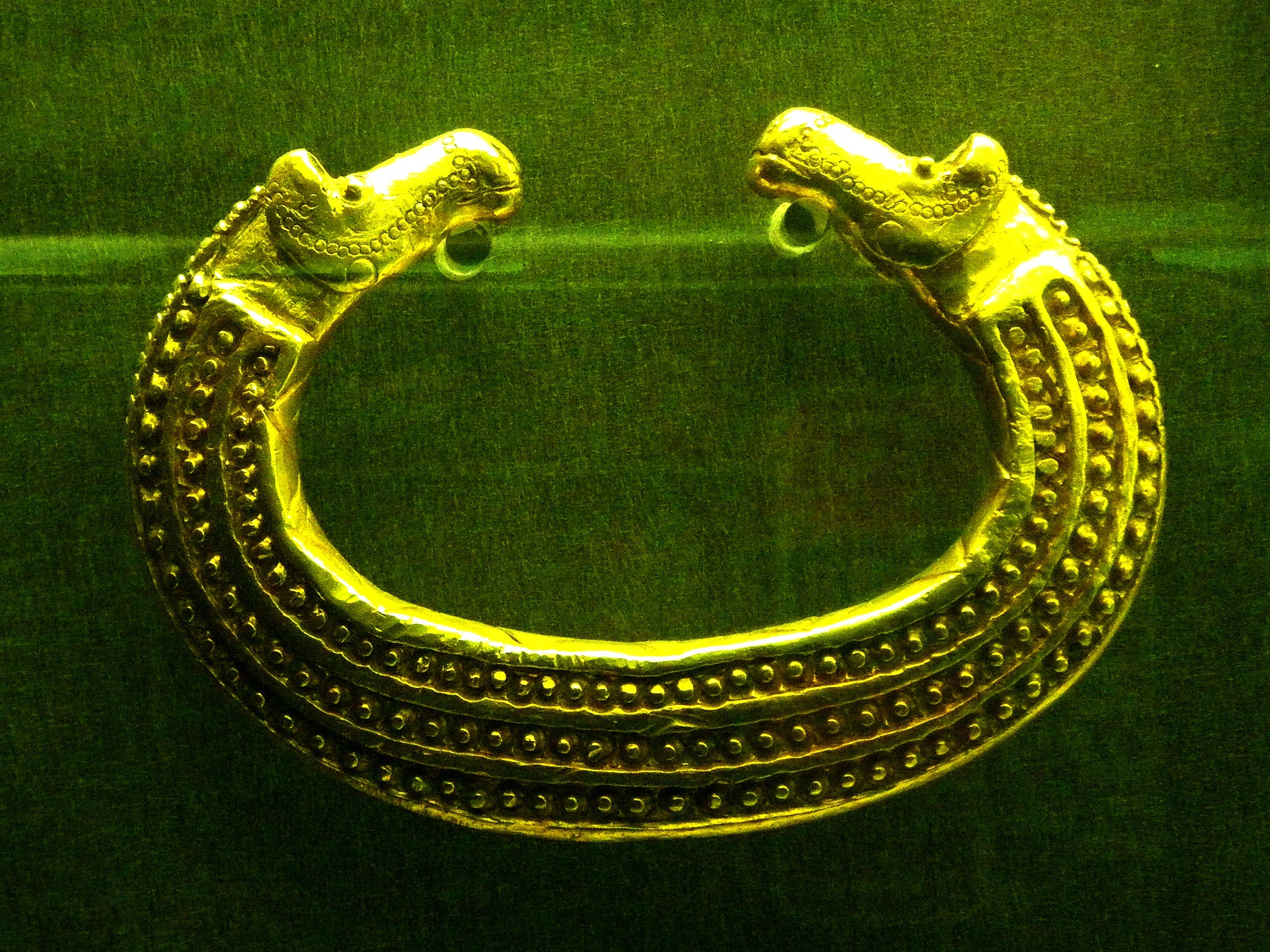 Naturhistorisches Museum Wien Dacian Gold